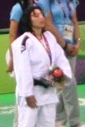 Sabina Abdullayeva at the awarding ceremony of the judo women blind 57 kg of the 2015 European Games.